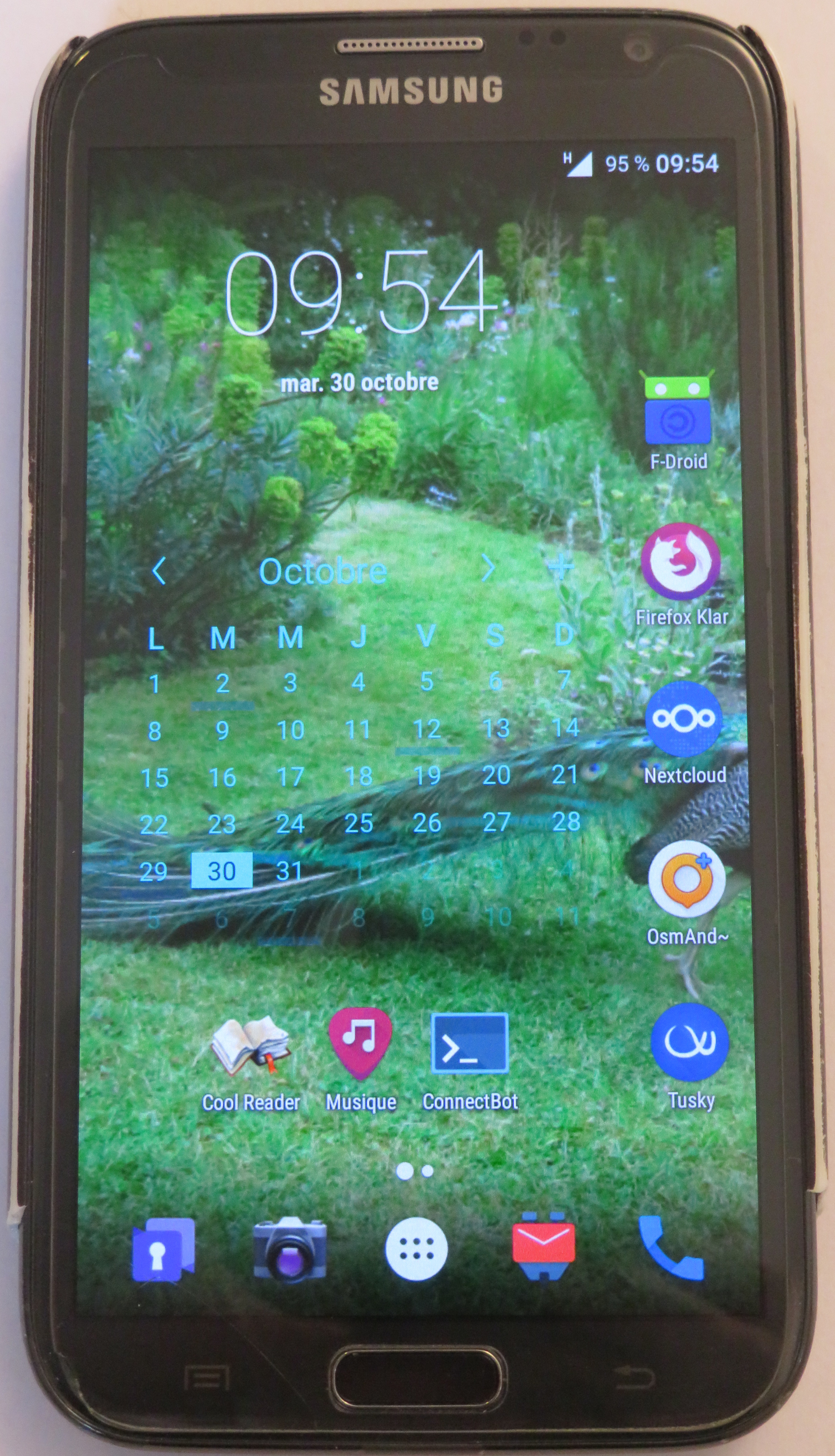 Samsung Galaxy Note II (N7100) running Replicant 6.0